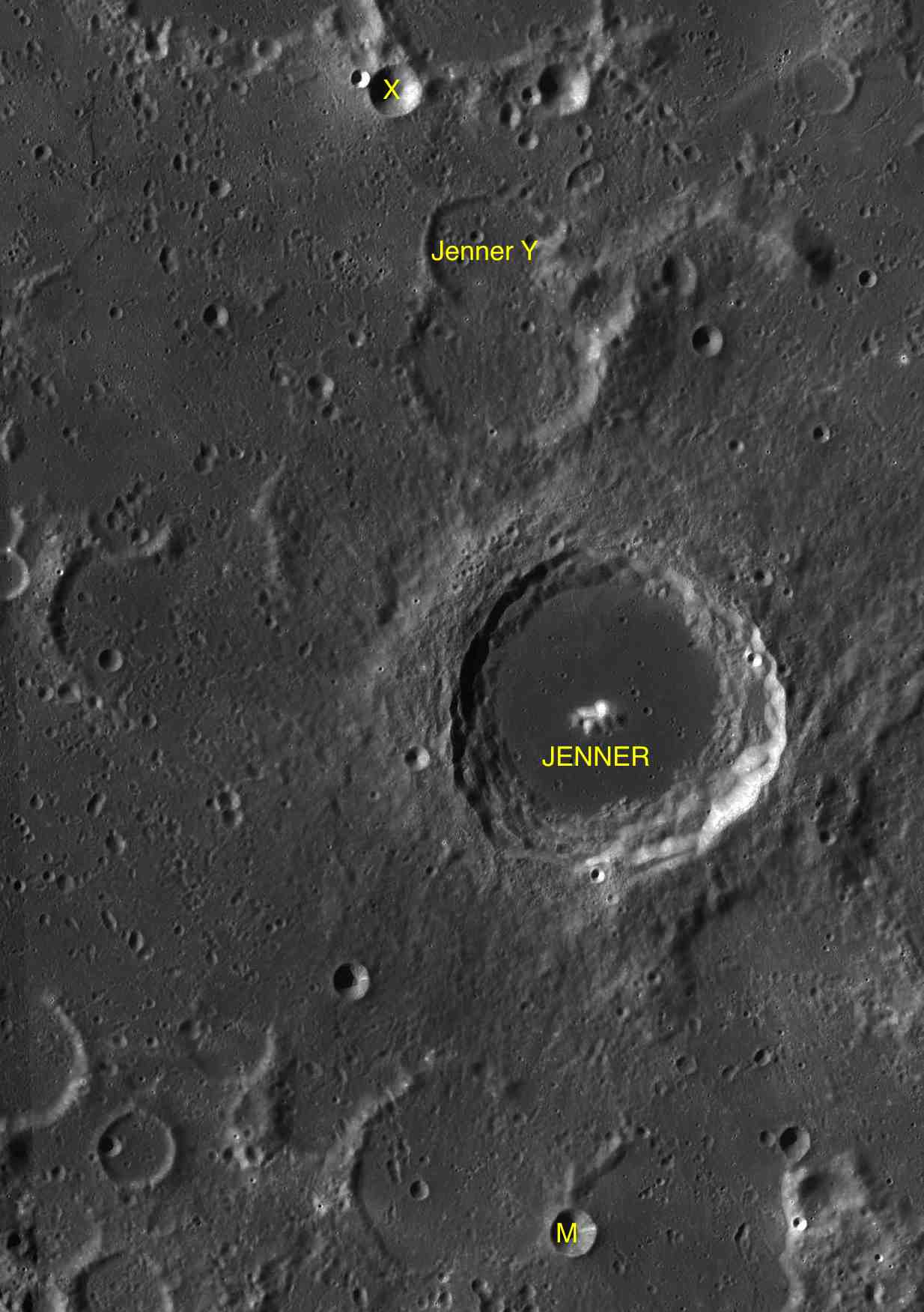 Part of the chart LAC-116 used for the presentation